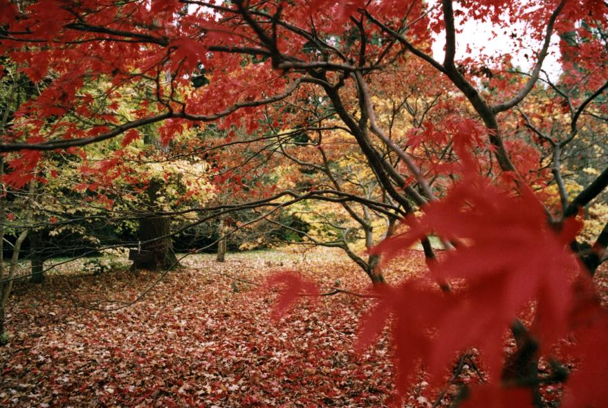 Westonbirt Arboretum - View through trees Photo taken by and copyright Stuz.